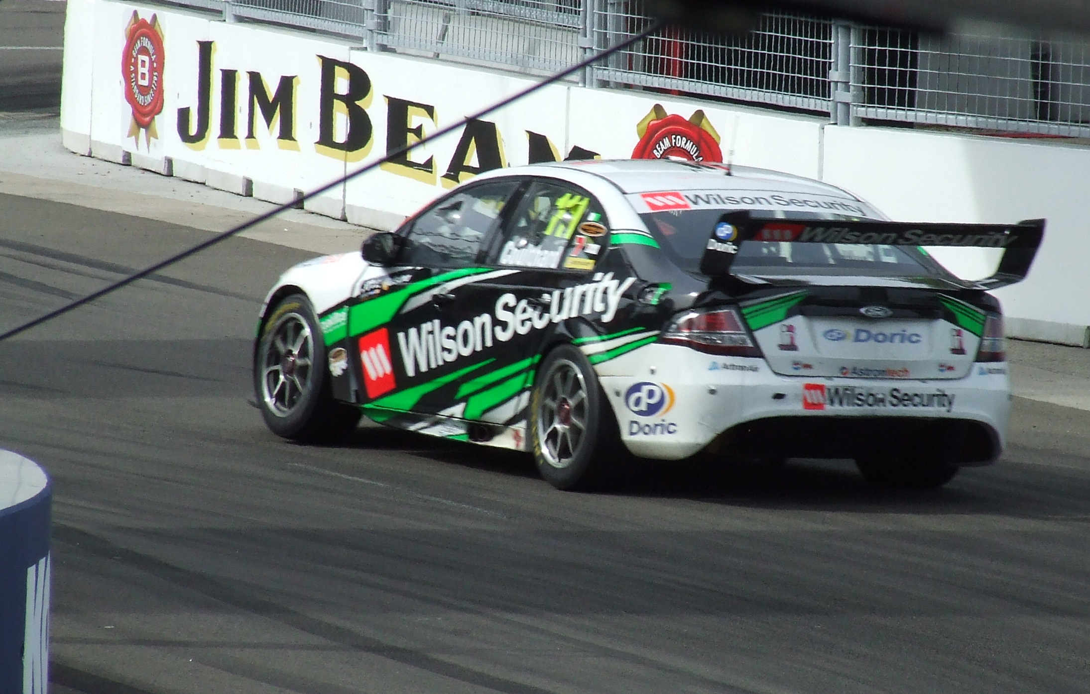 Action at the corner near the Novotel in the 2009 Sydney Telstra 500 V8 Supercar race at Sydney Olympic Park. The Ford FG Falcon of Fabian Coulthard turning to run along behing the station.